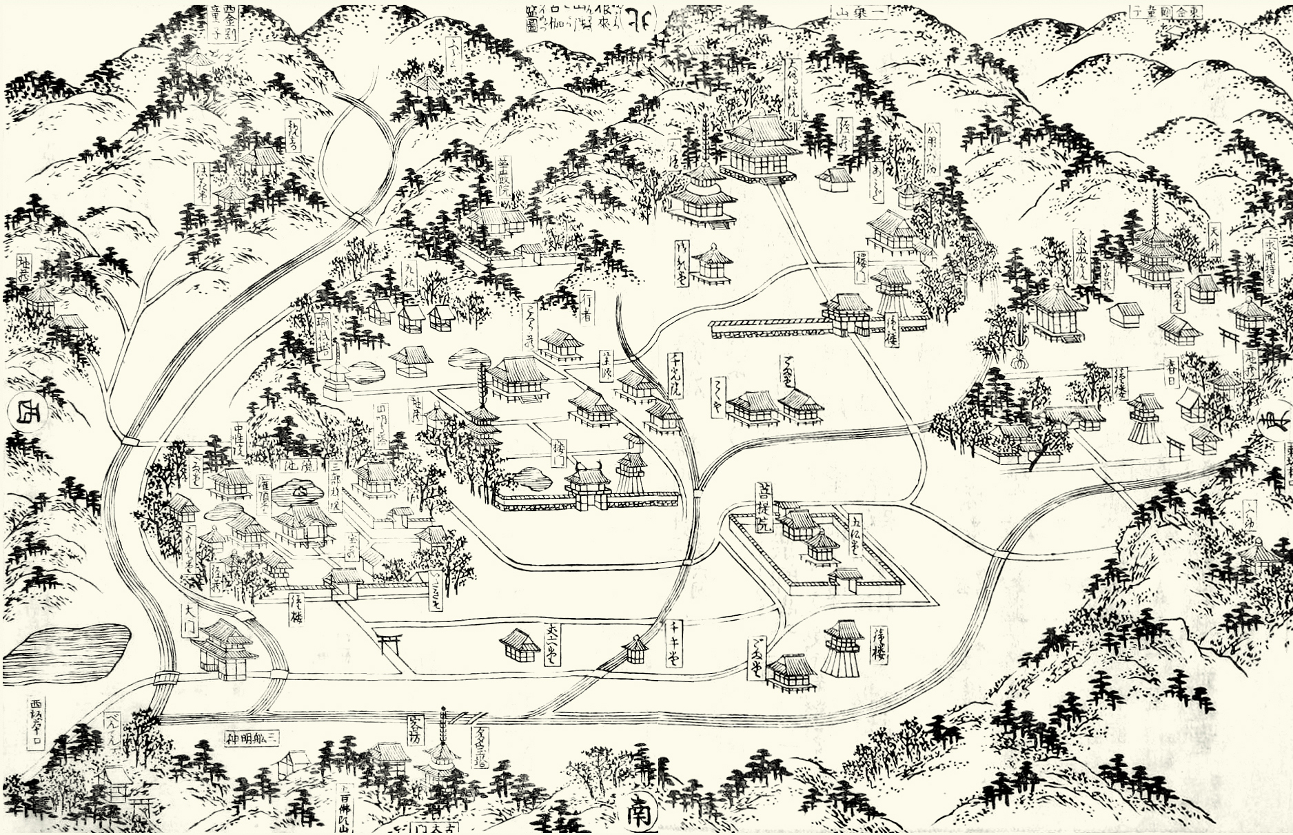 Negoro-Temple in the old province of Kii (Japan), woodblock print